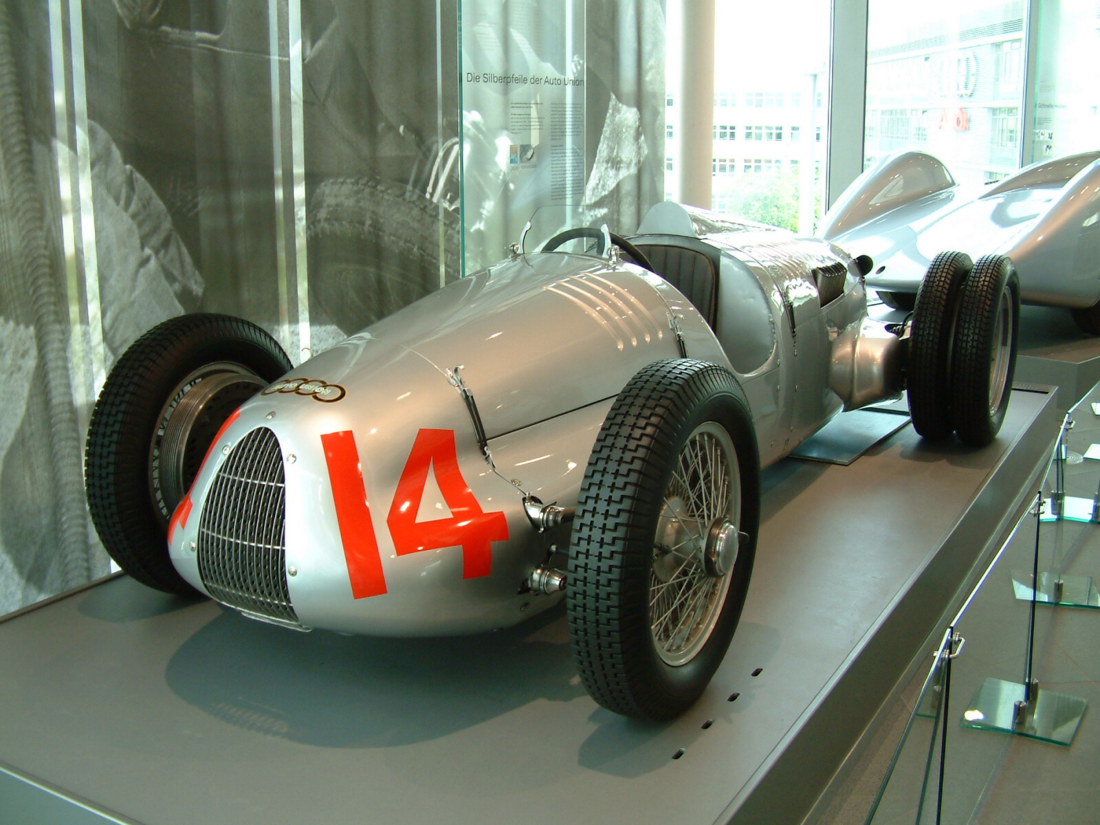 Auto Union Type C/D Hill climb car I took this photo with a Fujifilm FinePix 6900Z at the "museum mobile" in the Audi Forum Ingolstadt on June 9, 2002. This work has been released into the public domain by its author, Rechlin. This applies worldwide. In some countries this may not be legally possible; if so: Rechlin grants anyone the right to use this work for any purpose, without any conditions, unless such conditions are required by law.